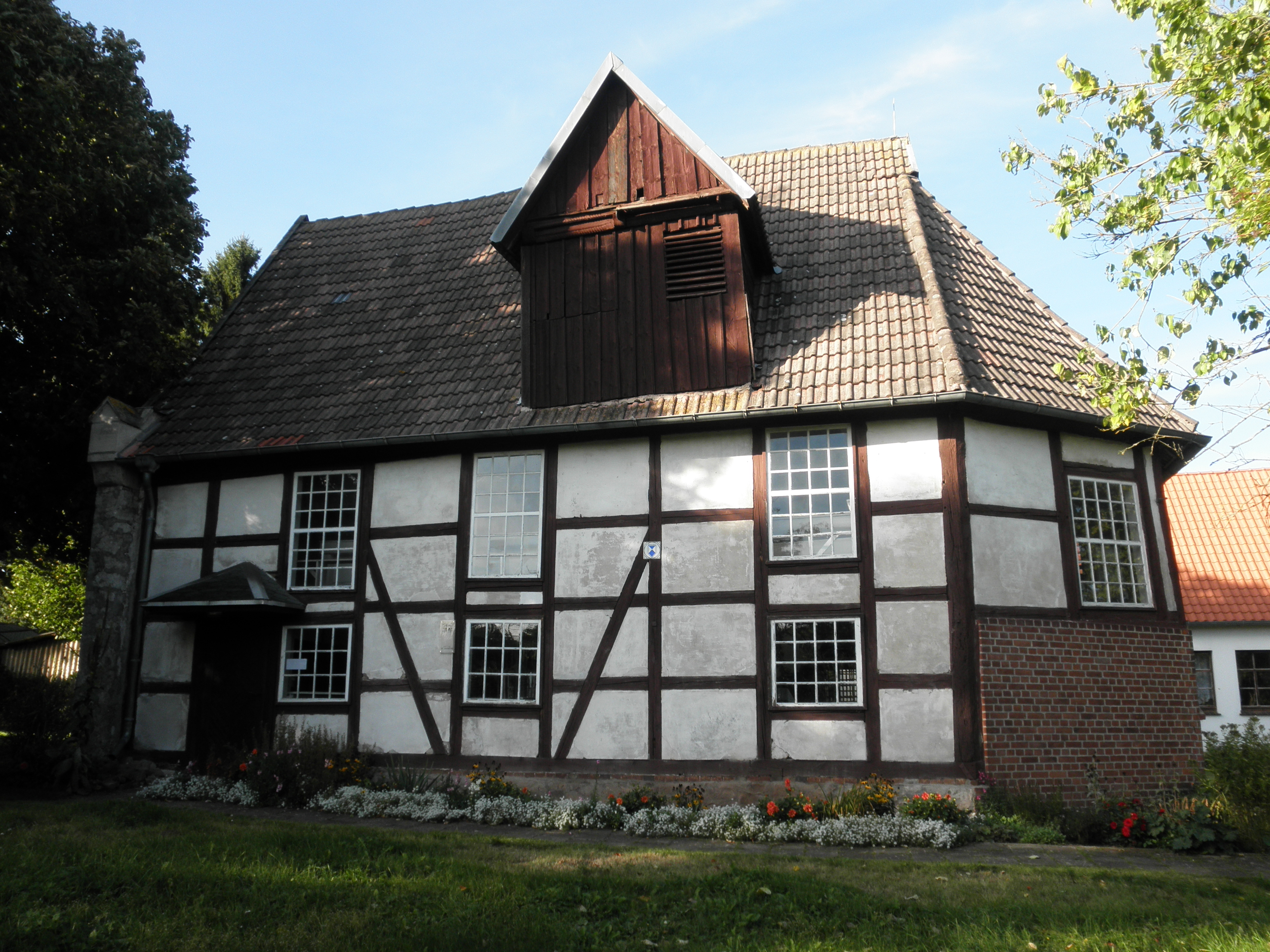 Church in Günzerode (Werther) in Thuringia